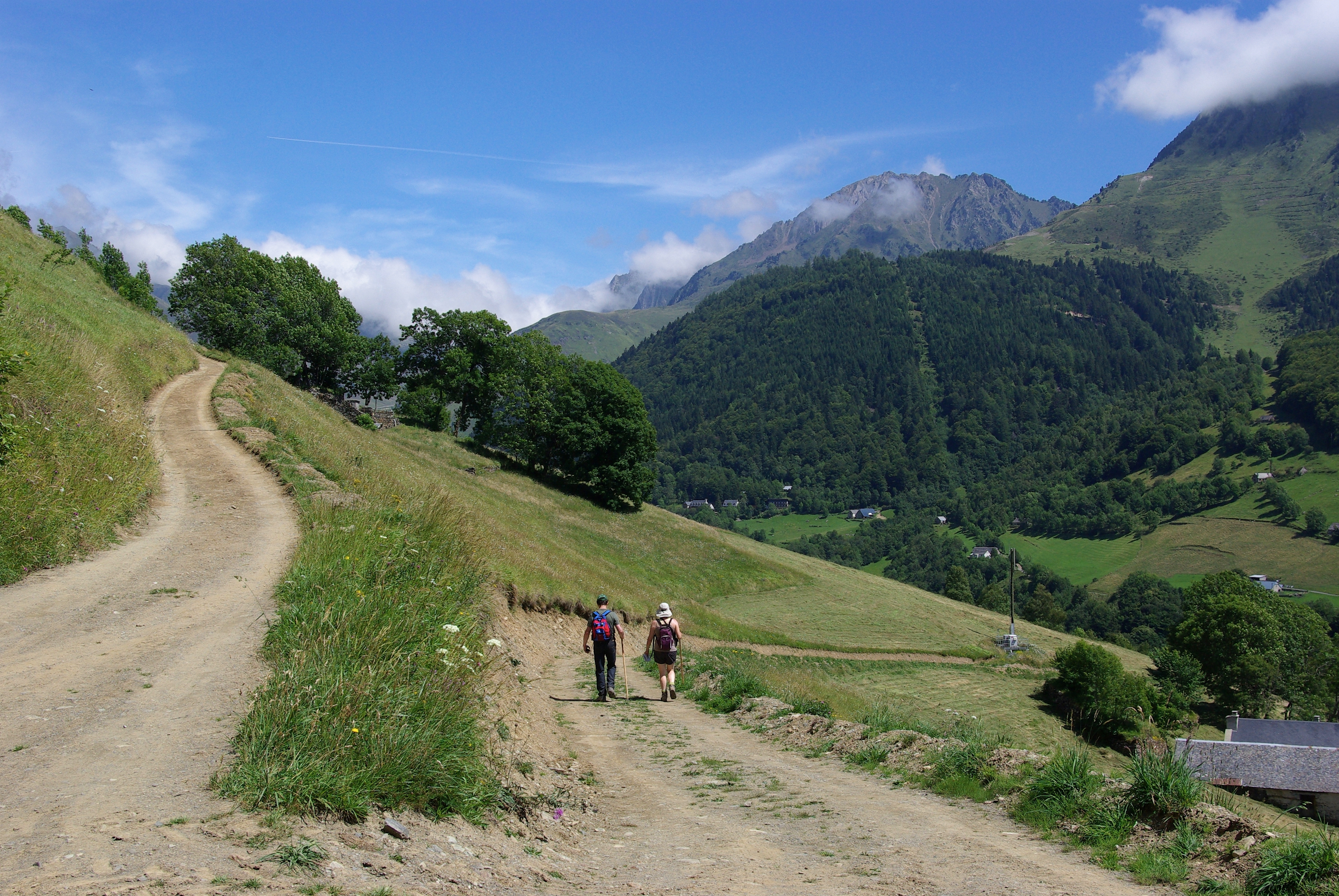 Crossing of Aygat and Midaou paths. Valley of Barèges, Hautes-Pyrénées, France.